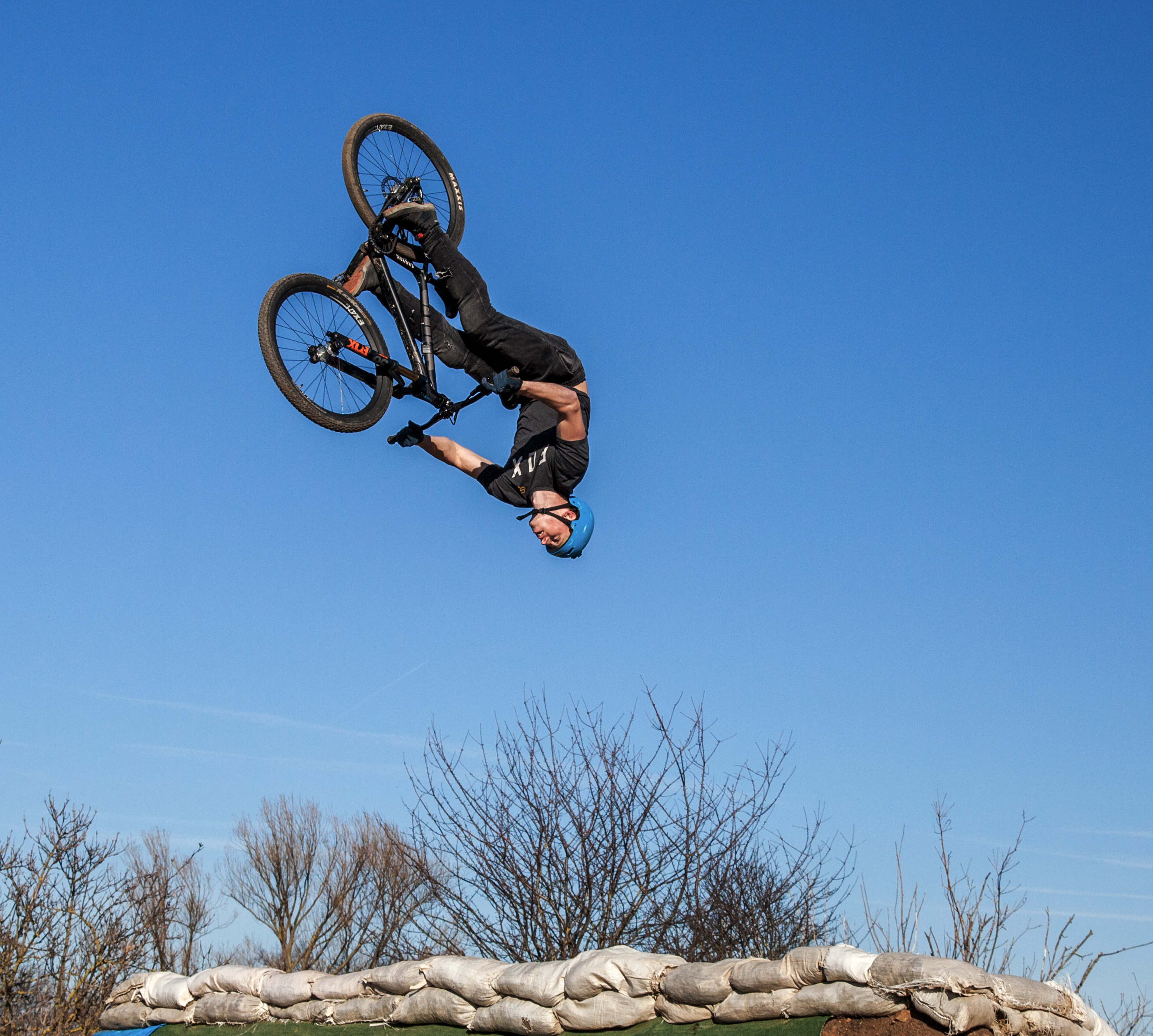 Dirt Jump, (dirt jump), Kirrweiler, Rhineland-Palatinate, Germany